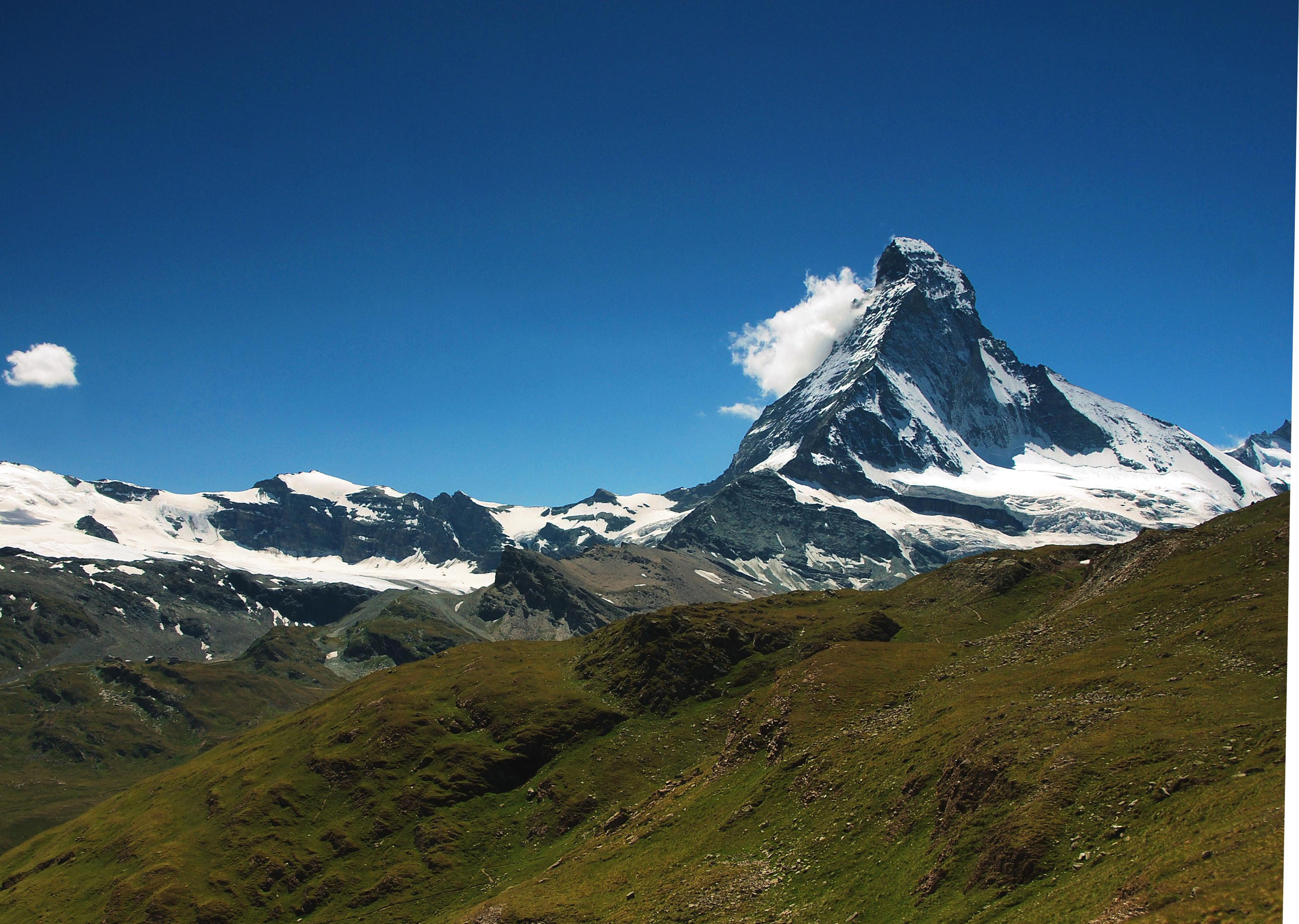 The Matterhorn, seen from above Zermatt.